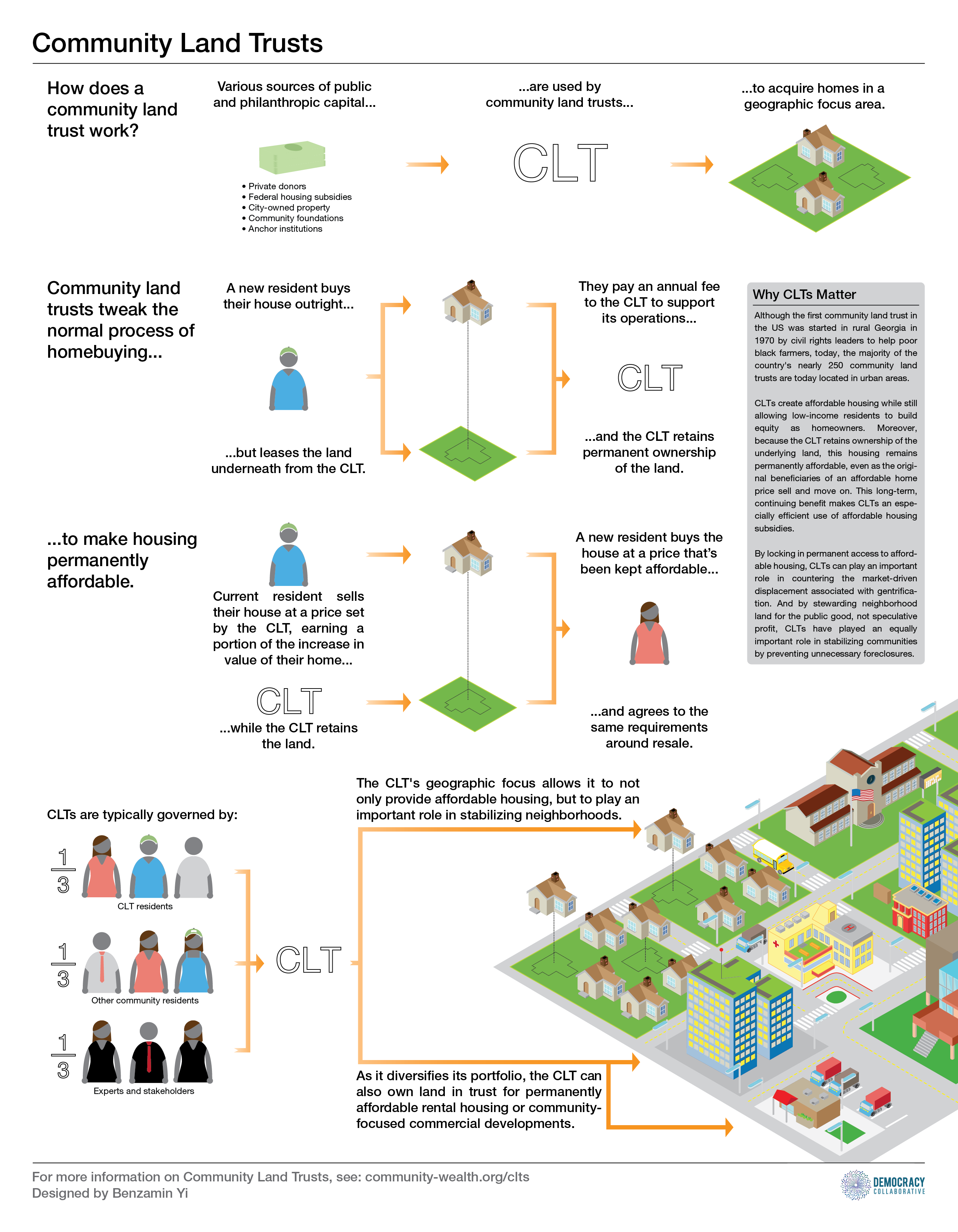 How does a community land trust work?